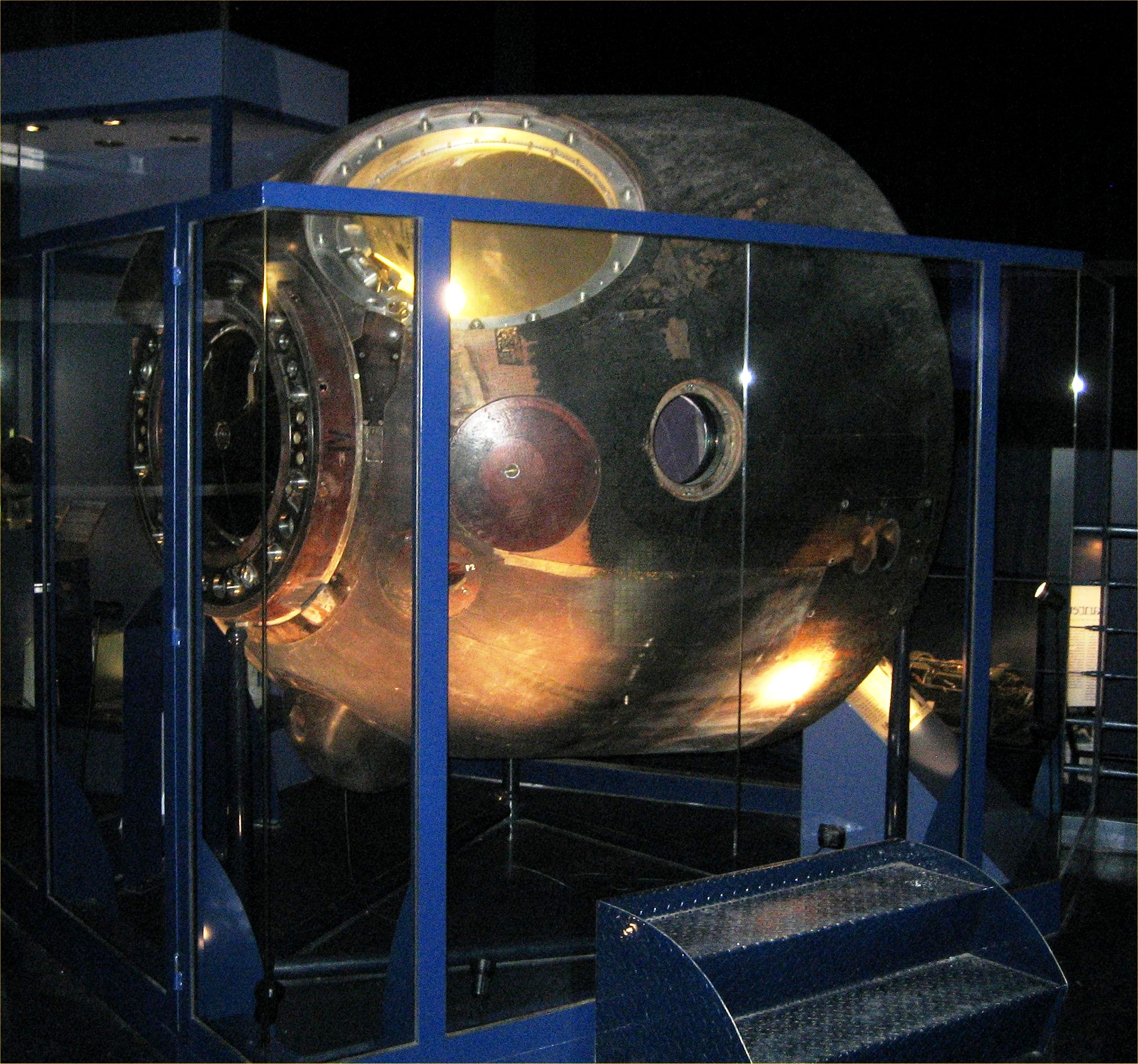 This is the actual Soyuz capsule that returned two Soviet and one French cosmonaut to Earth in 1982 after a two-week visit to the early SALYUT 7 space station.